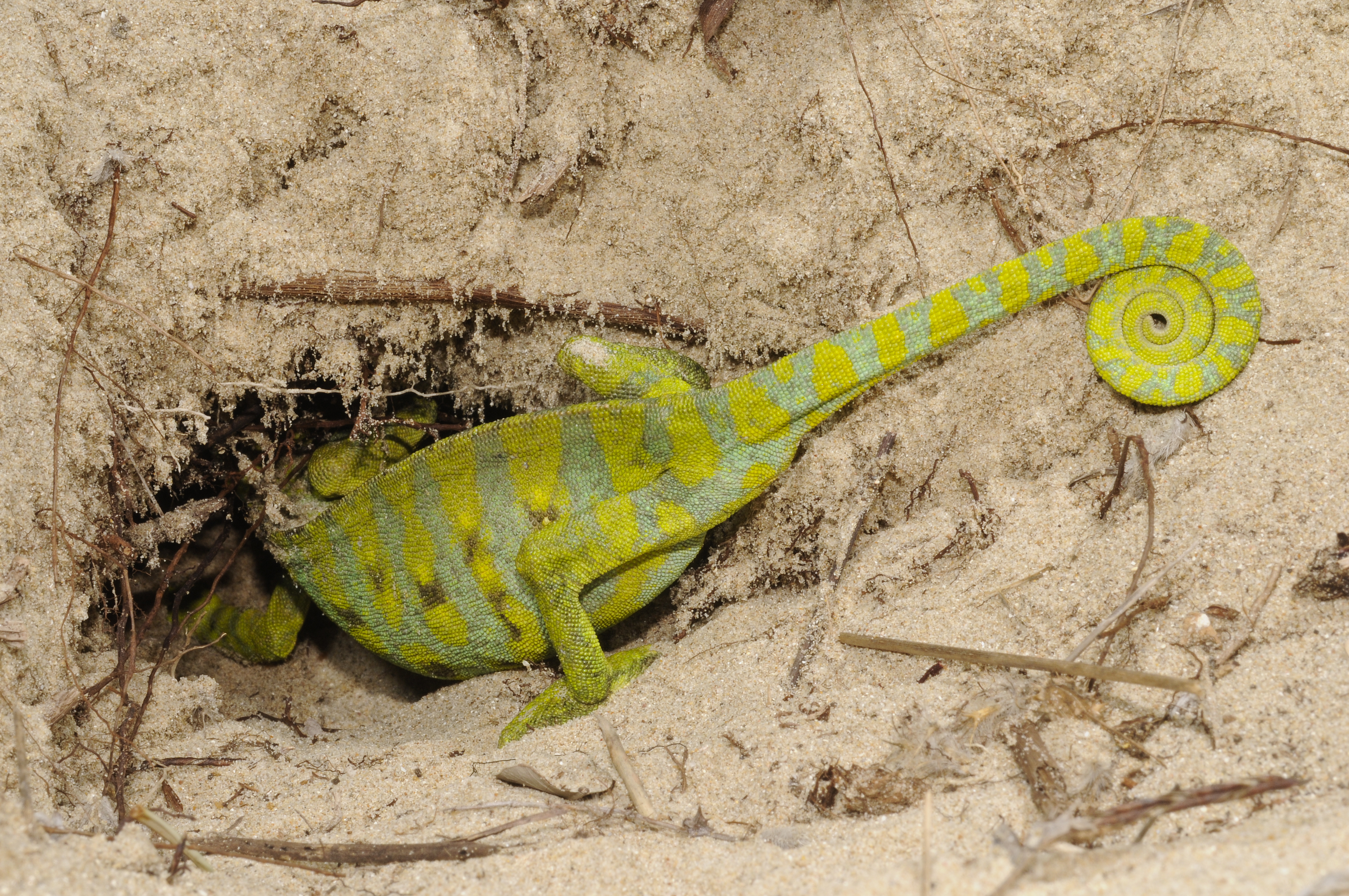 female Chamaeleo africanus is digging a nest